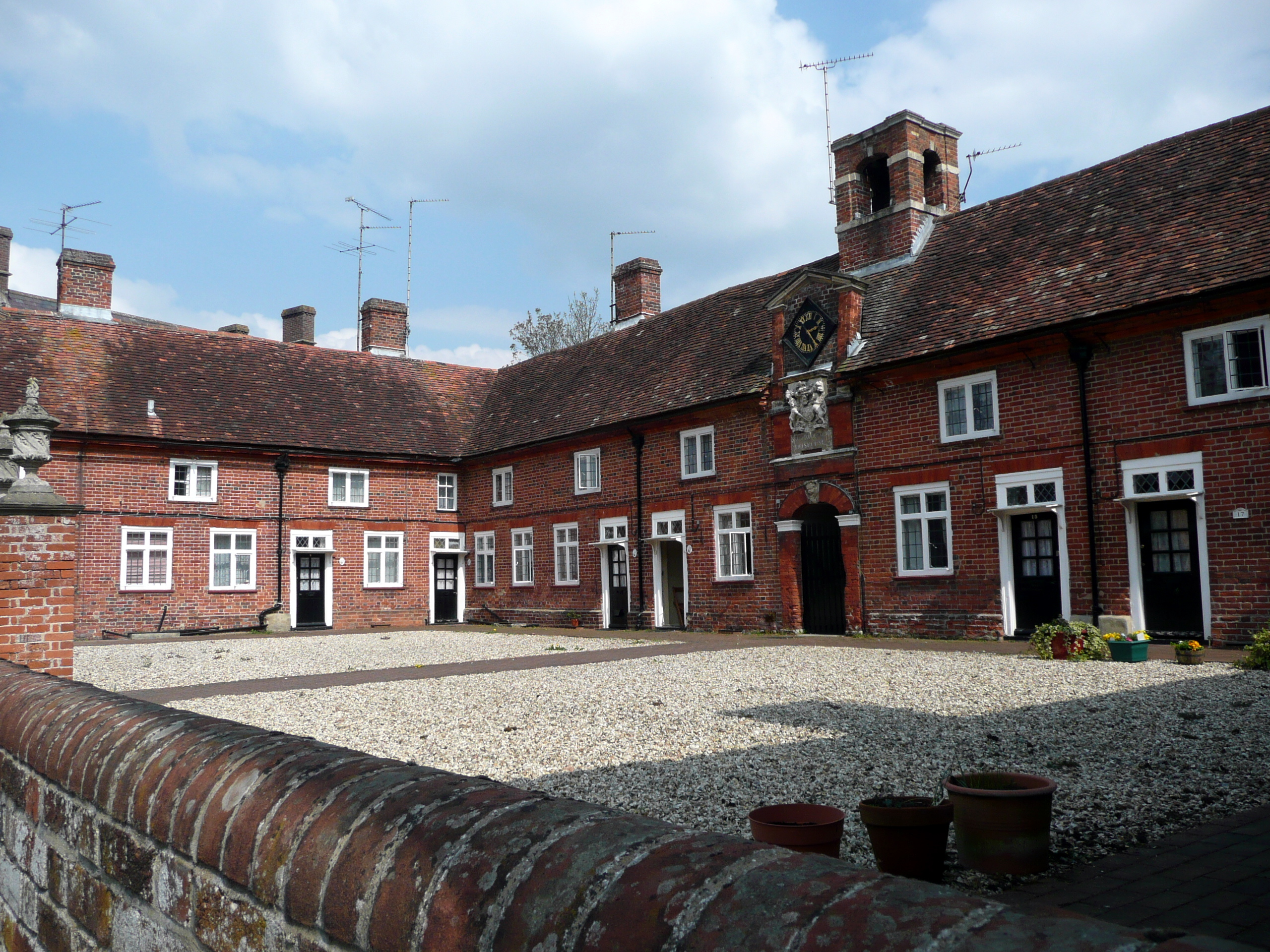 Almshouses on Argyle Street, Newbury reputed to date from 1618 though re-constructed 1698.